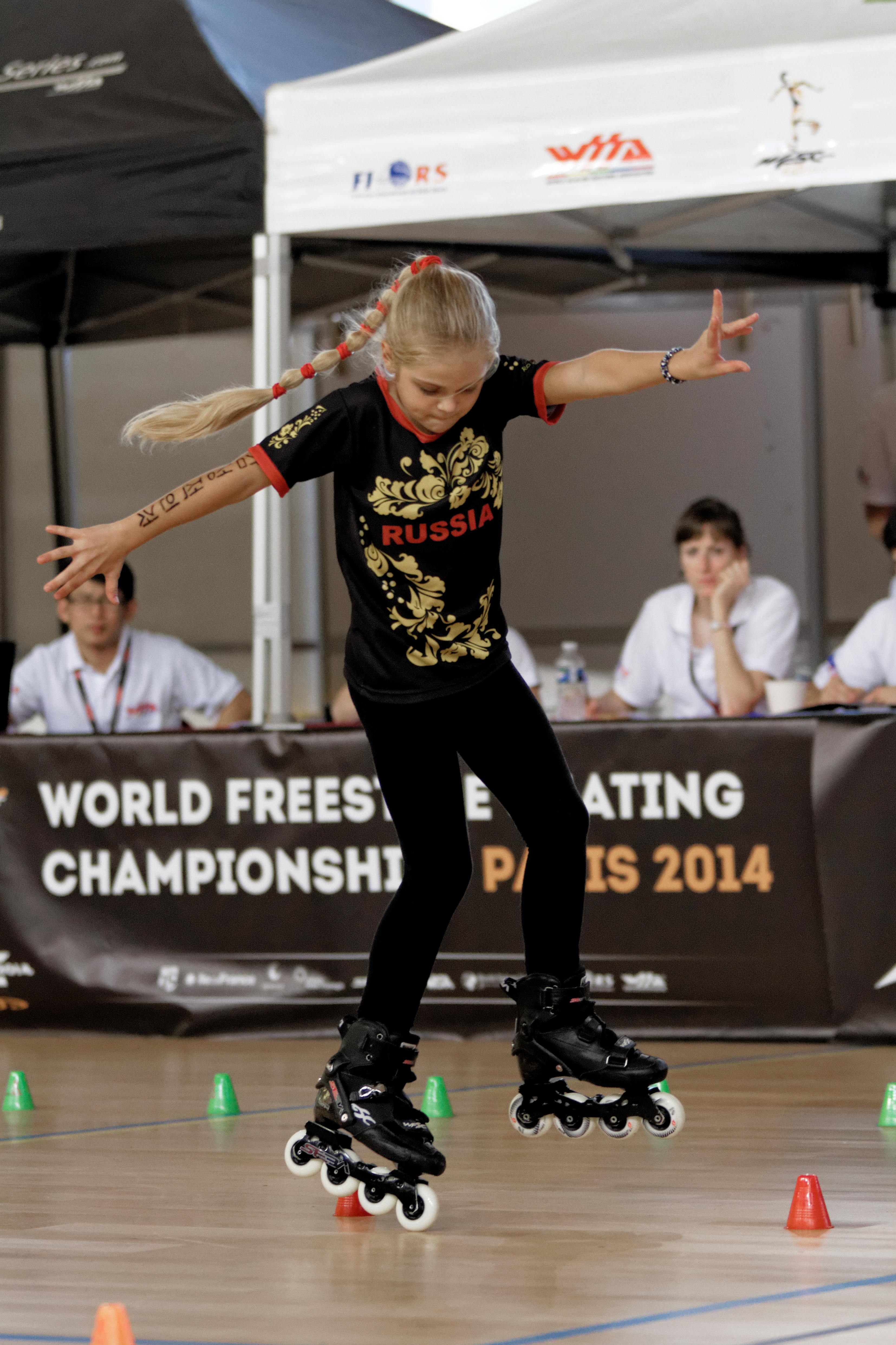 2014 World freestyle skating championships